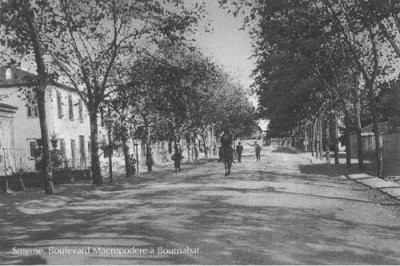 Street in Bornova, İzmir, Turkey, beginning of 20th century